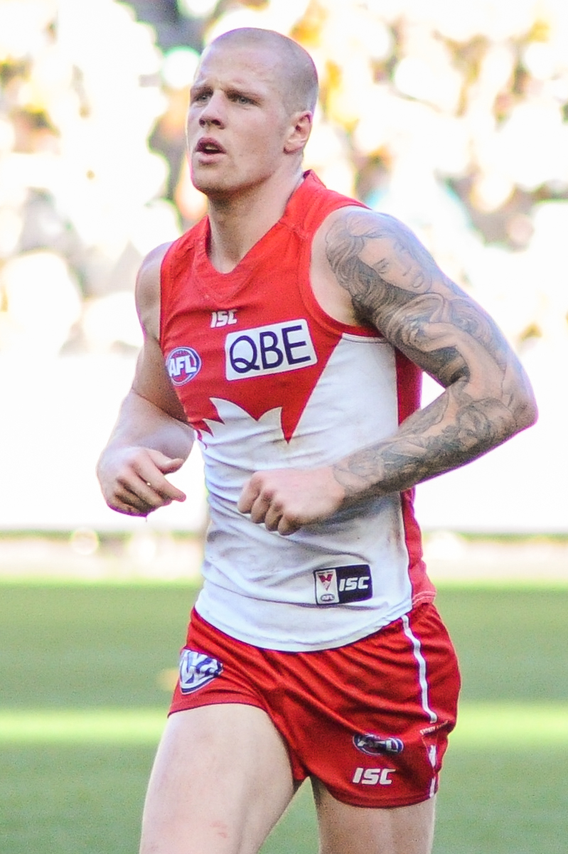 Zak Jones during the AFL round thirteen match between Richmond and Sydney on 17 June 2017 at the Melbourne Cricket Ground in Melbourne, Victoria.